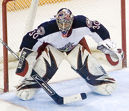 Fredrik Norrena, ice hockey goalie of the Columbus Blue Jackets, game vs. San Jose Sharks 3/16/2007